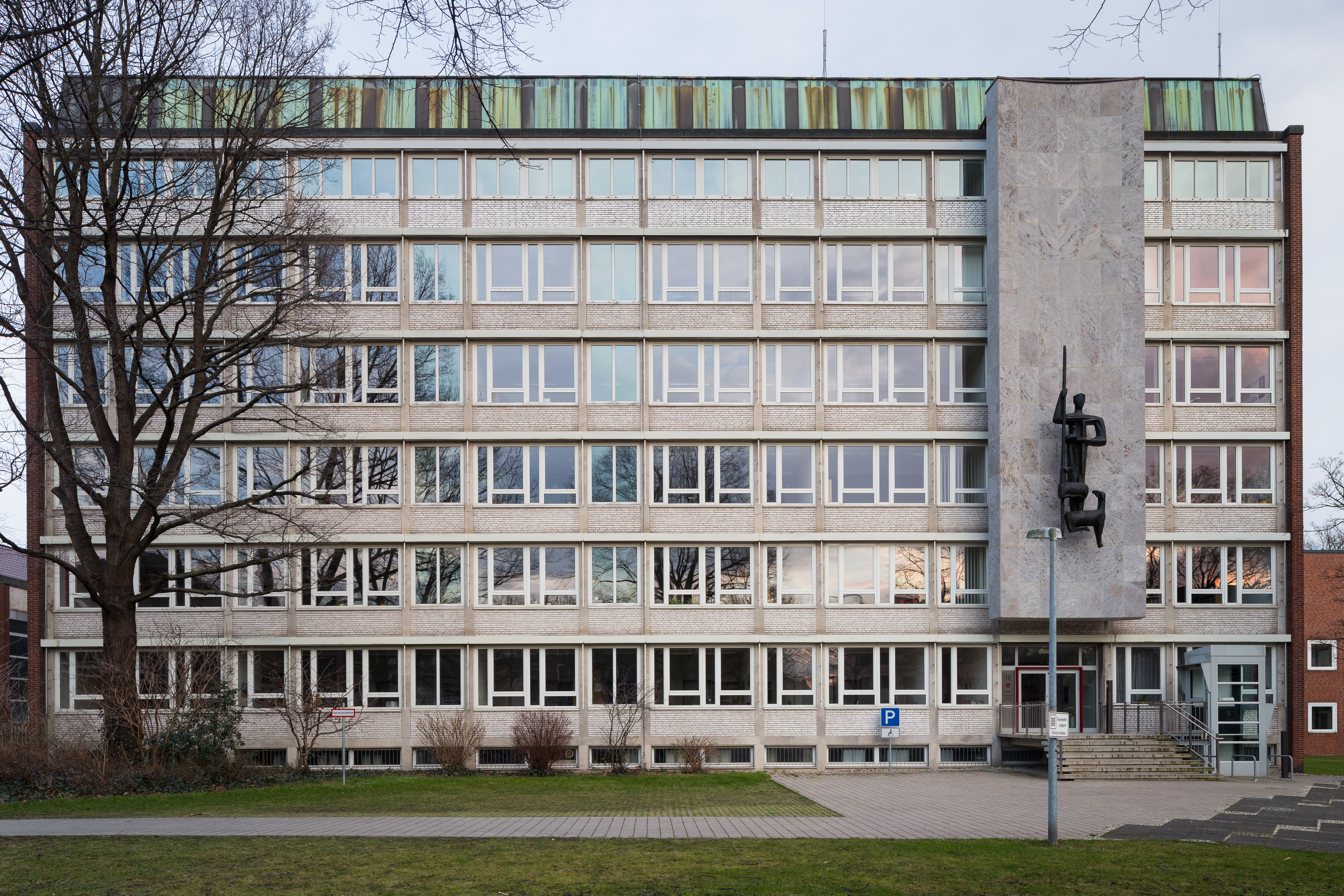 Office building of the finance authority for large company inspection located at Bischofsholer Damm no. 19 in Bult district of Hannover, Germany.